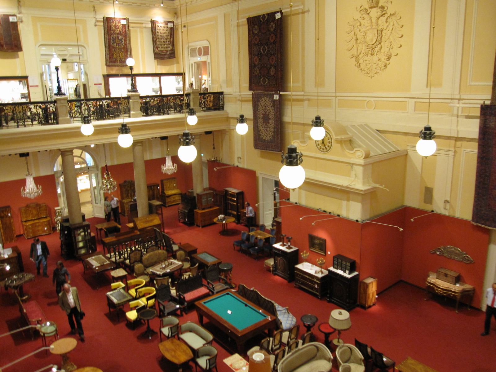 Inside the Palais Dorotheum in Vienna.